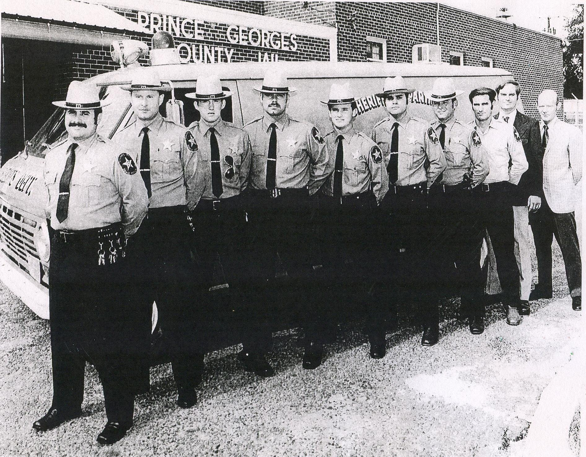 Prince George's County Sheriff's Office deputies in front of old van.